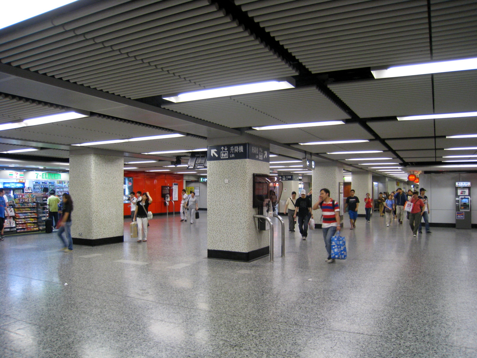 Yao Ma Tei Station Concourse 油麻地站